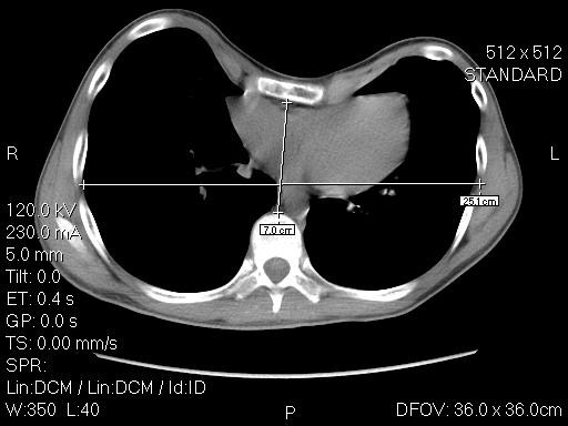 A CT scan of a 14 year old male with severe pectus excavatum. showing a Haller index of 3.58